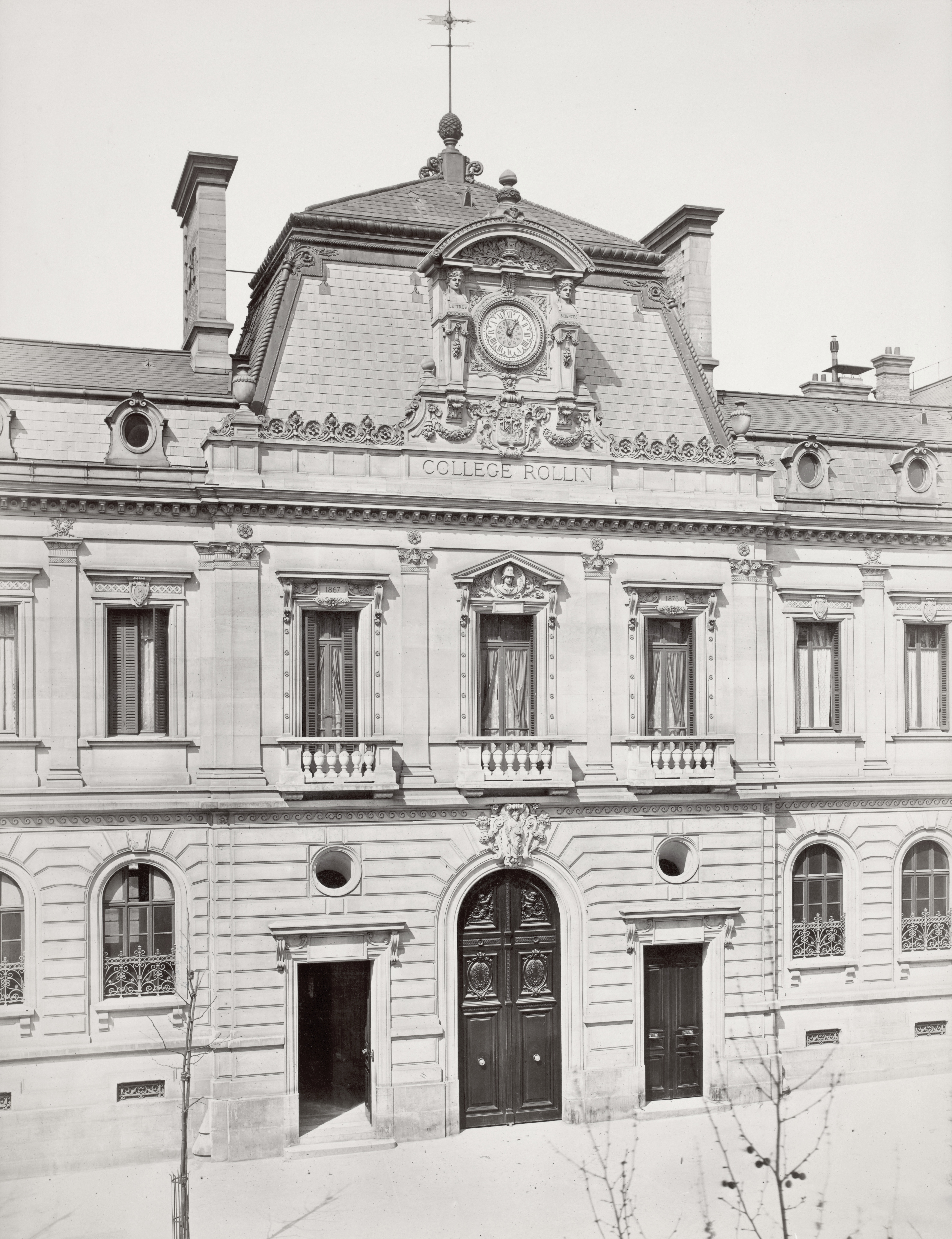 Shows facade of two storey building with clock at roof, balconettes at upper storey windows, arched door, decorative wrought iron on lower windows. Name College Rollin beneath clock.